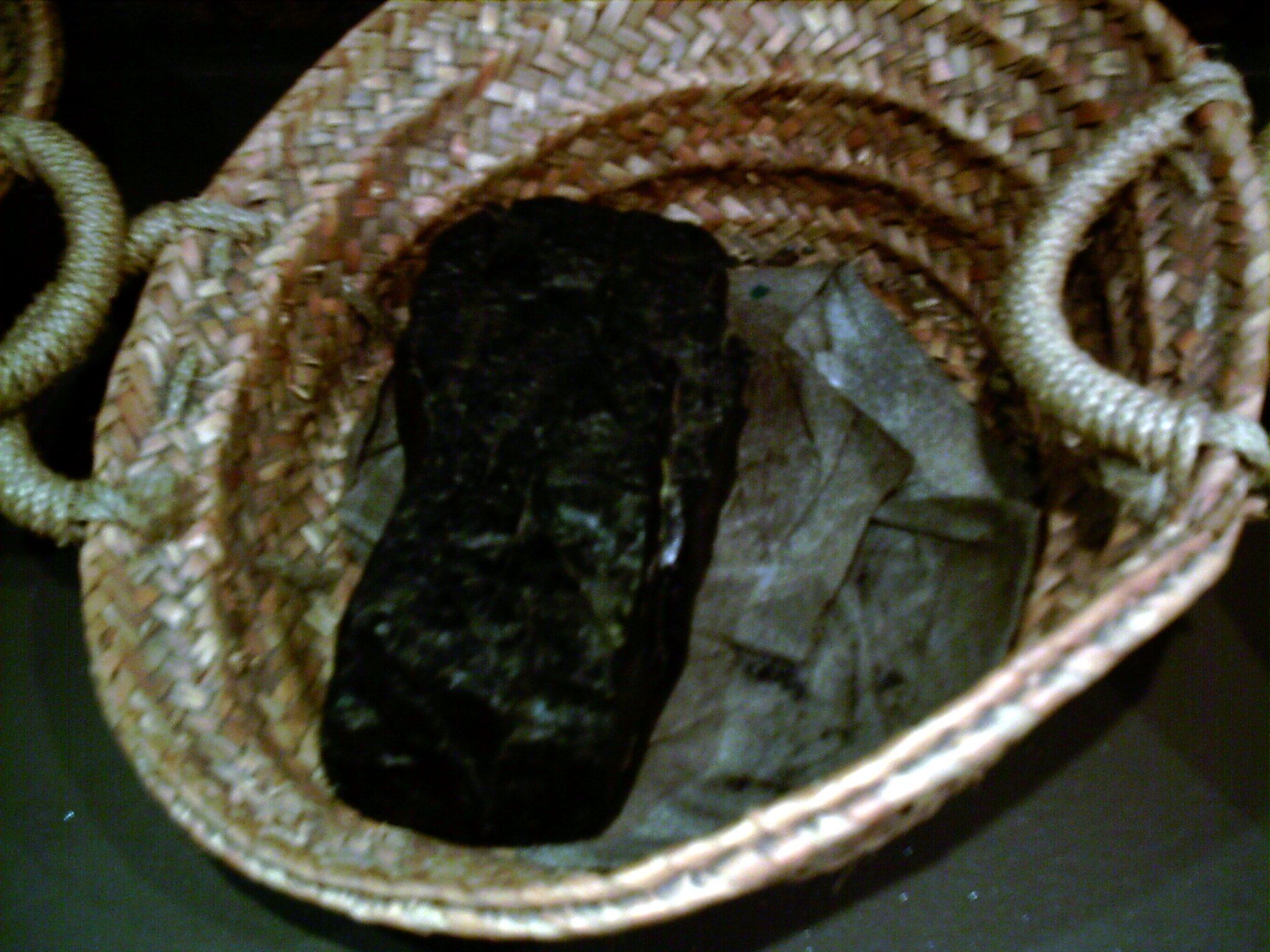 Coal, at the mNATECT, Terrassa, (Catalunya).